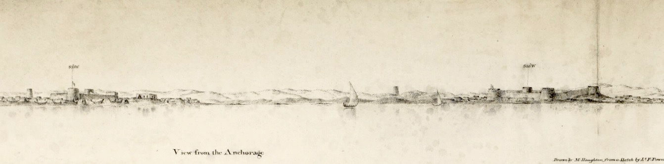 Trigonometrical plan of the harbour of El Biddah on the Arabian side of the Persian Gulf. By Lieuts. J. M. Guy and G. B. Brucks, H. C. Marine. Drawn by Lieut. M. Houghton Depths shown by soundings with grid added in pencil. Includes inset: ‘View from the anchorage’ in the upper left-hand side of sheet.